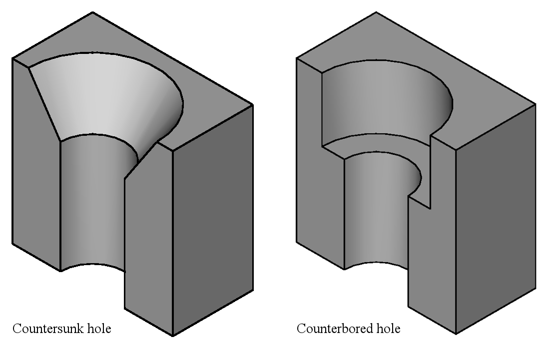 Countersunk and counterbored holes cross-section.